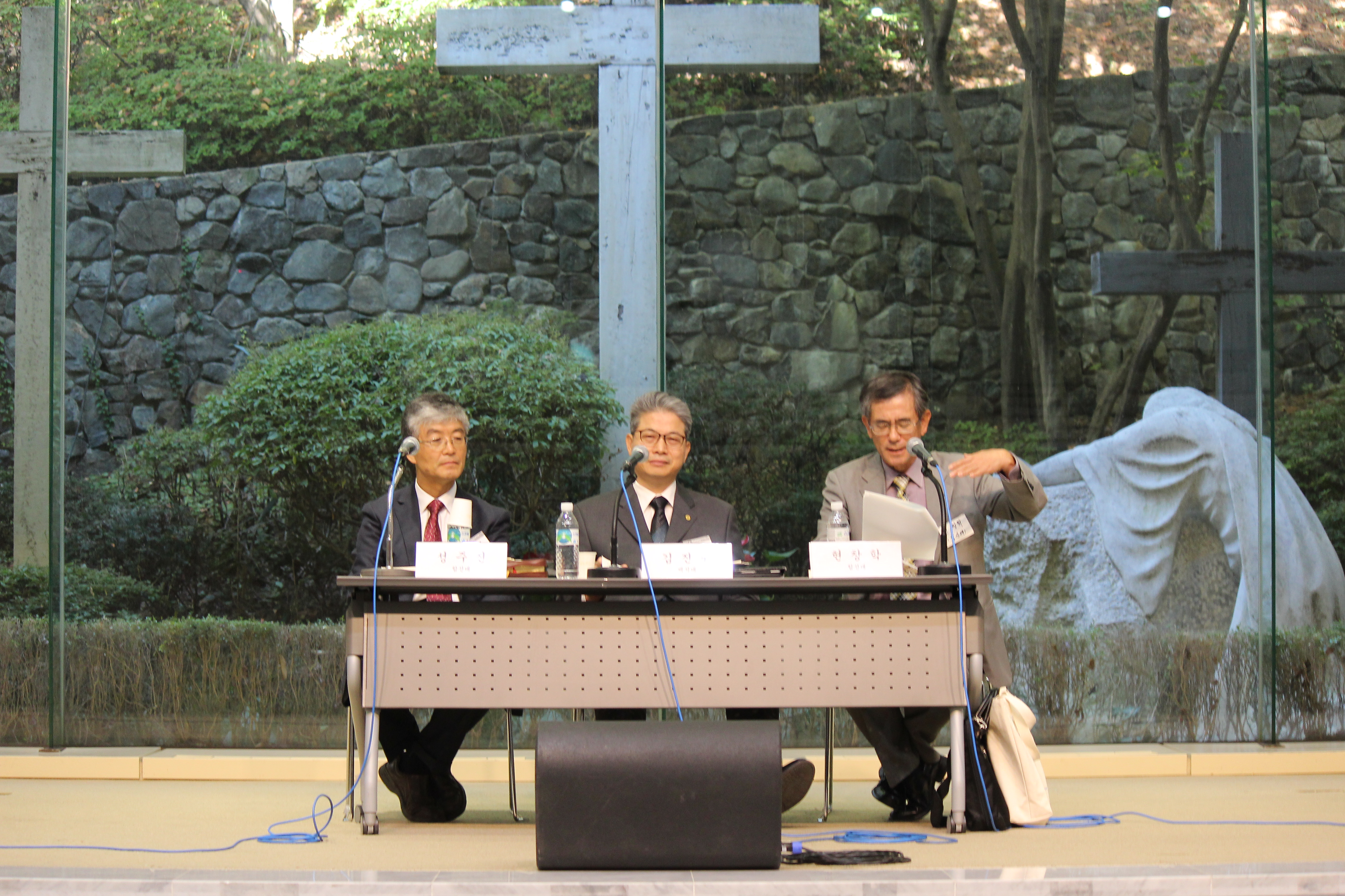 Presenting the paper of a professor in 2017 Academic Confeence on the 500th Anniversary of the Reformation